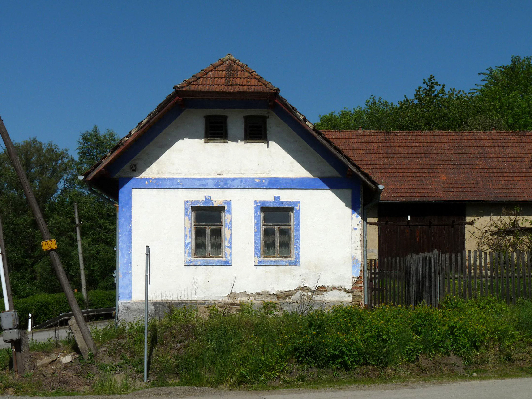 House No 13 the village of Nuzbely, Tábor District, South Bohemian Region, Czech Republic, part of the municipality of Radenín.